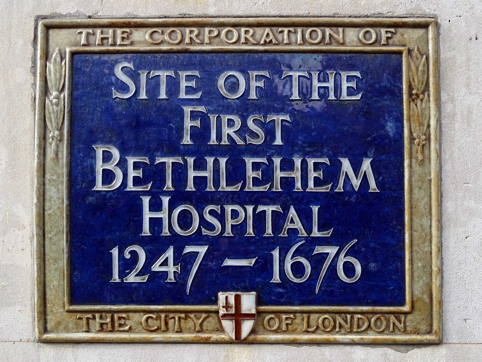 Blue plaque erected by The Corporation of The City of London at Liverpool Street London, EC2